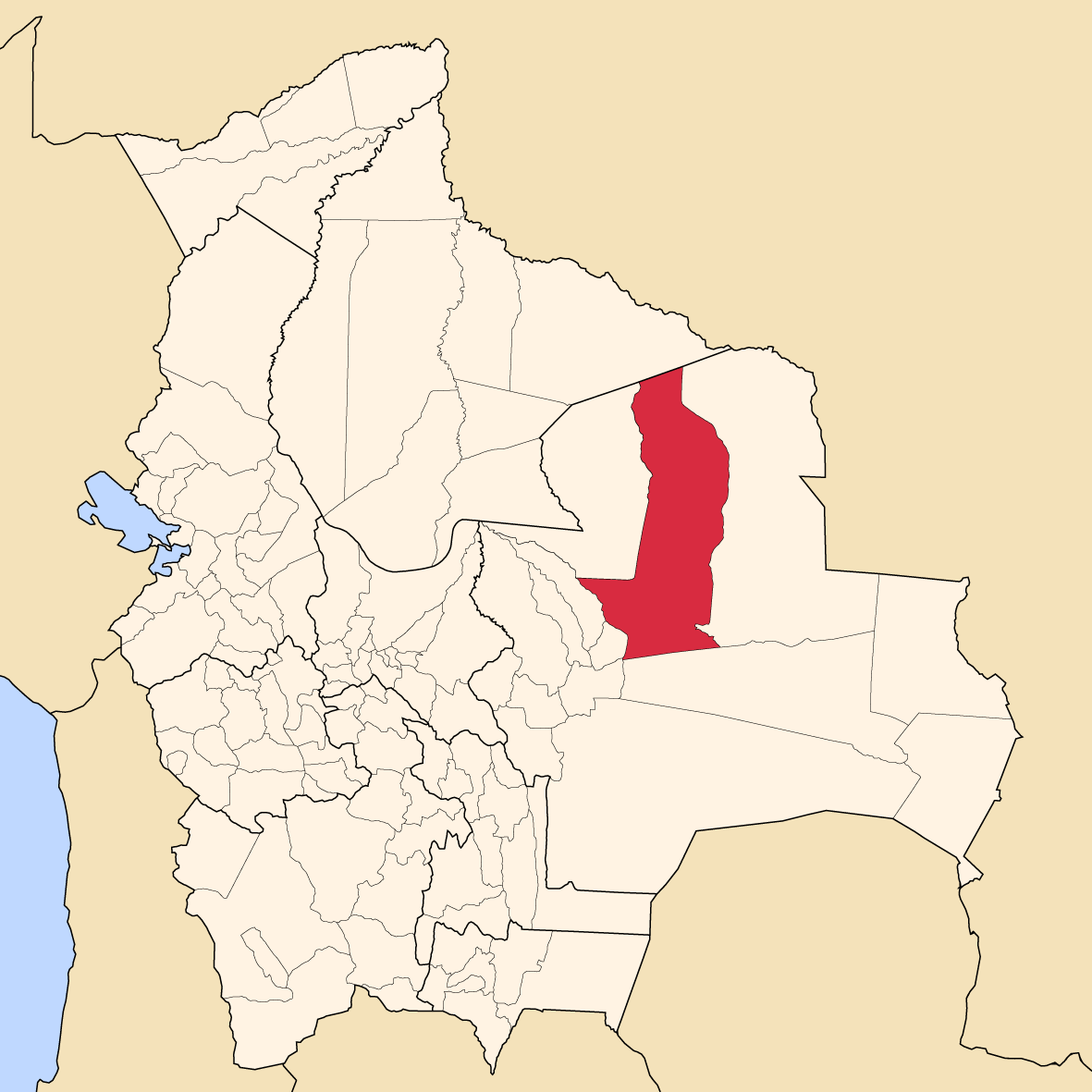 Map of Bolivia showing Ñuflo de Chaves province, Santa Cruz